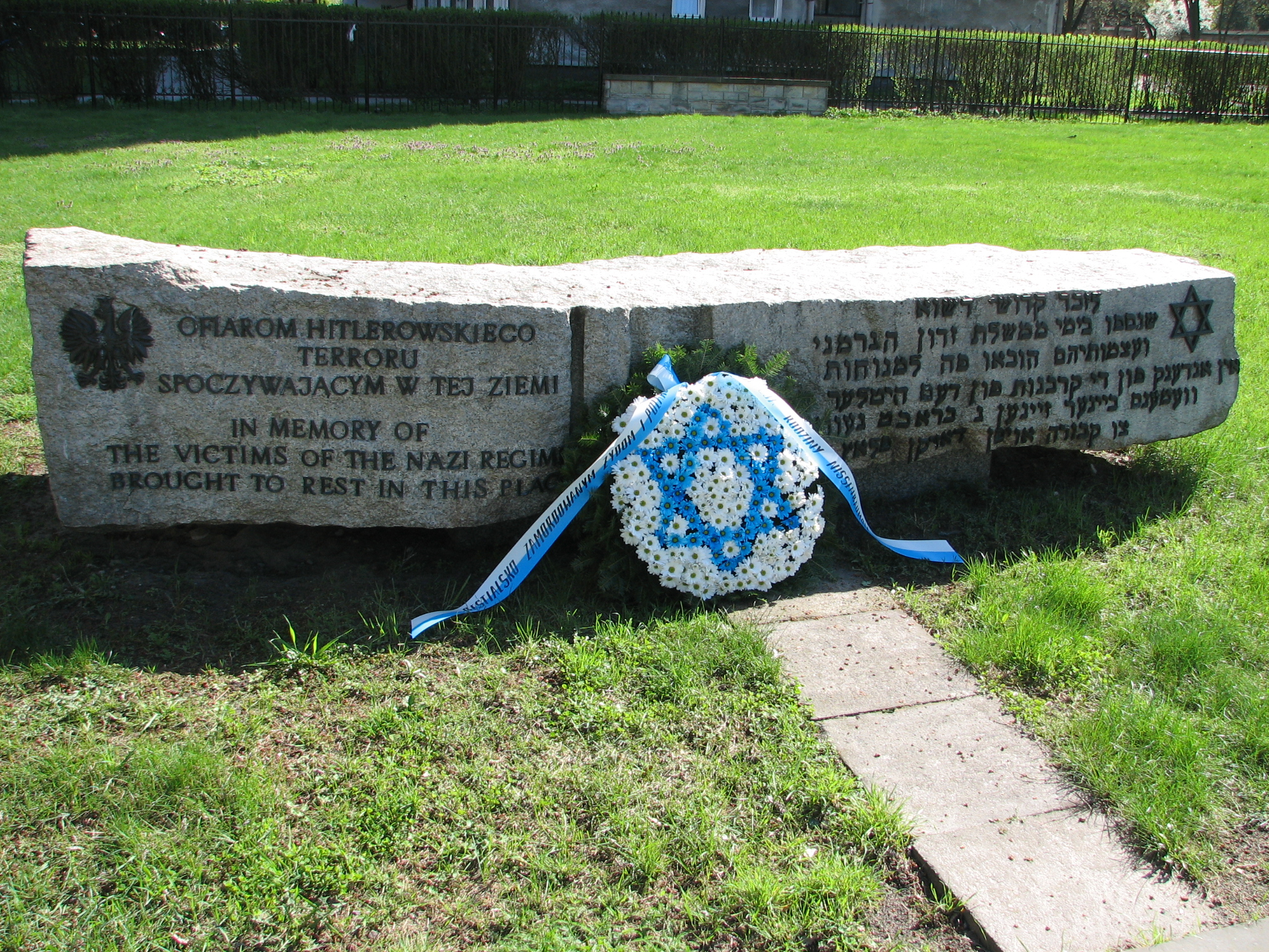 Monument of Jews and Poles Common Martyrdom in Warsaw, Gibalskiego street 21